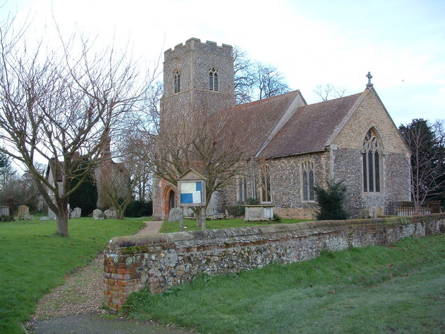 All Saints' parish church, Stoke Ash, Suffolk, seen from the southeast